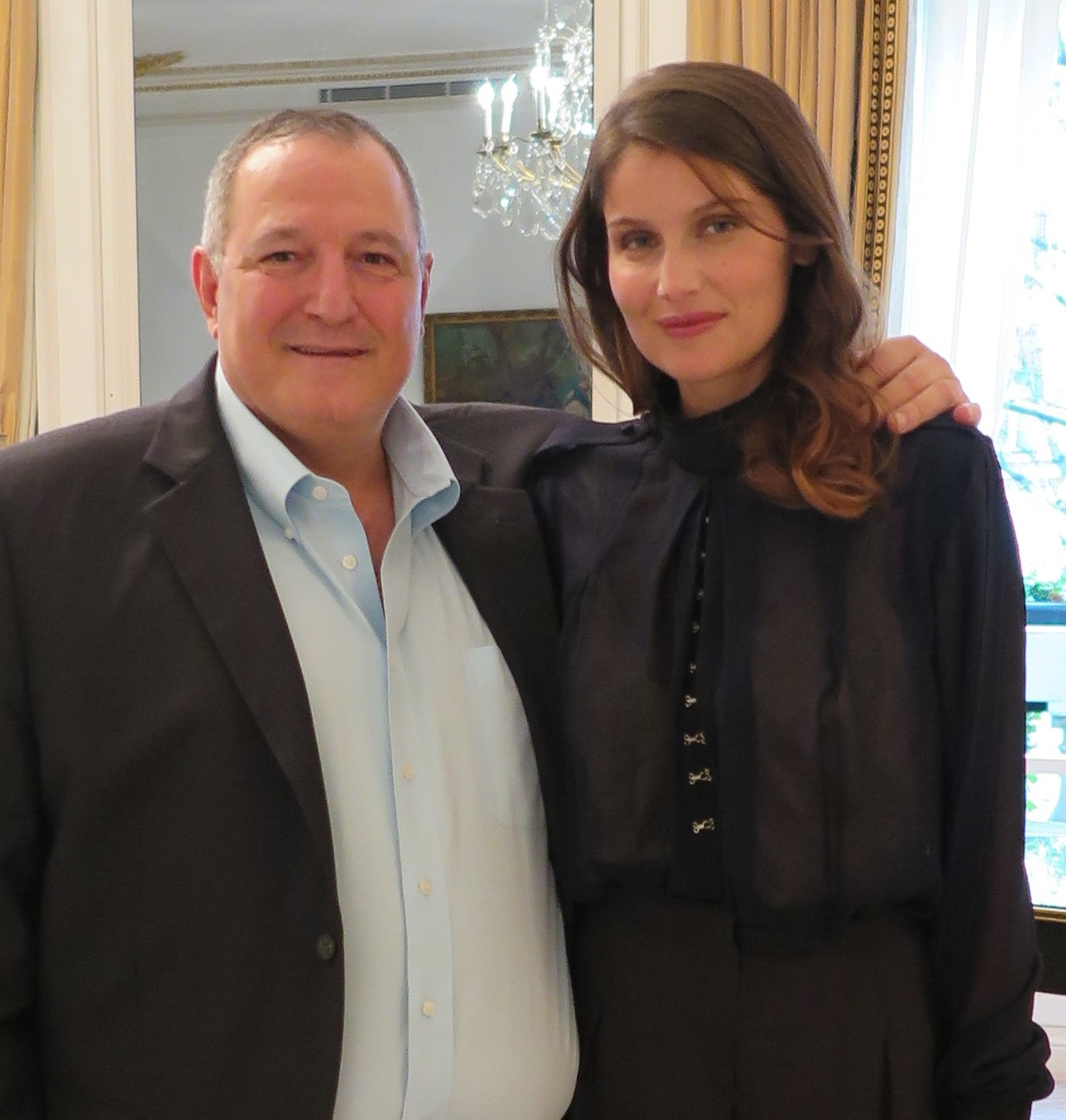 Adnan Alkateb With the French star Laetitia Casta